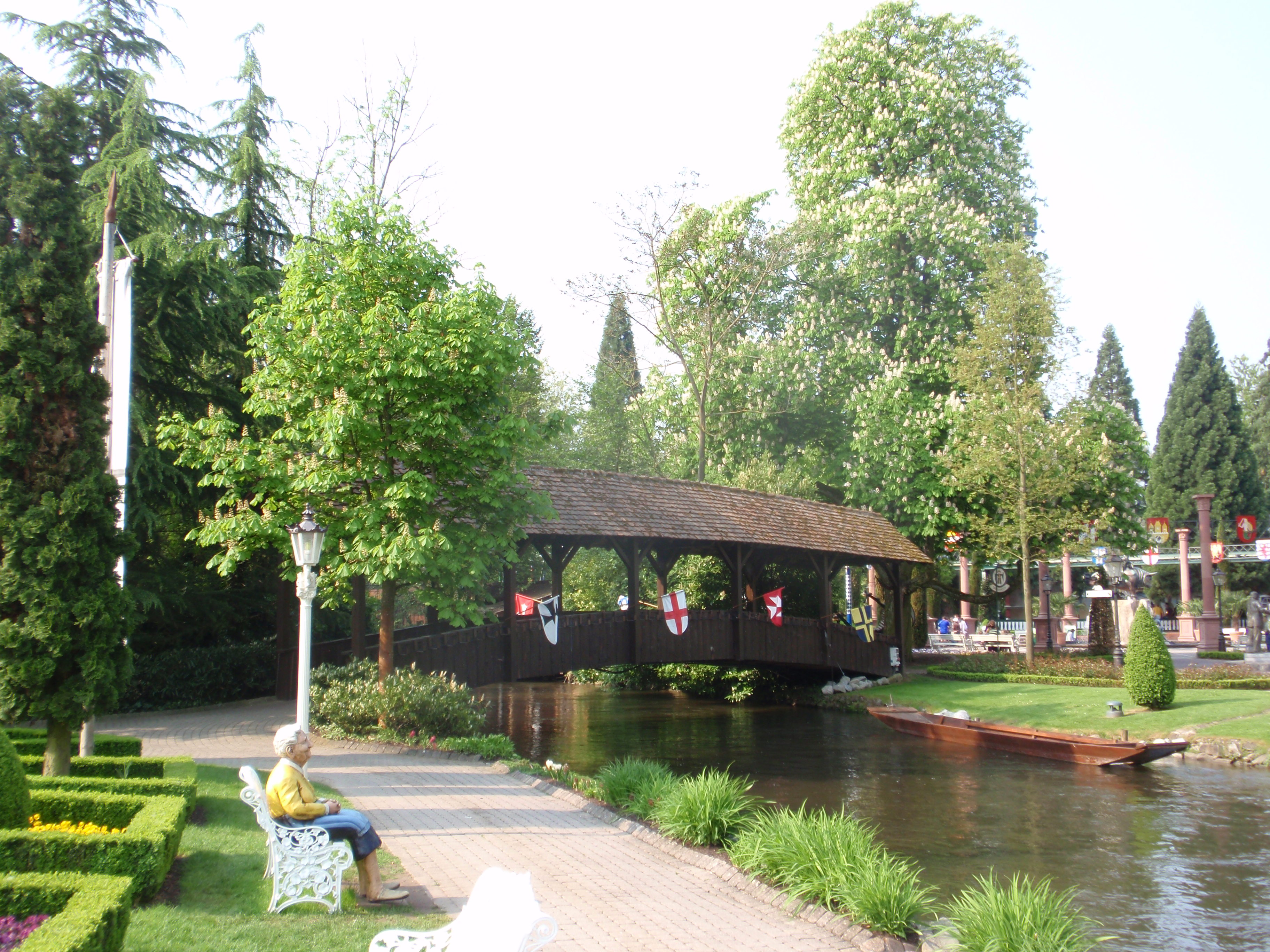 Alamannian bridge over the small river Elz in the theme area "Germany" of the Europa-Park Rust